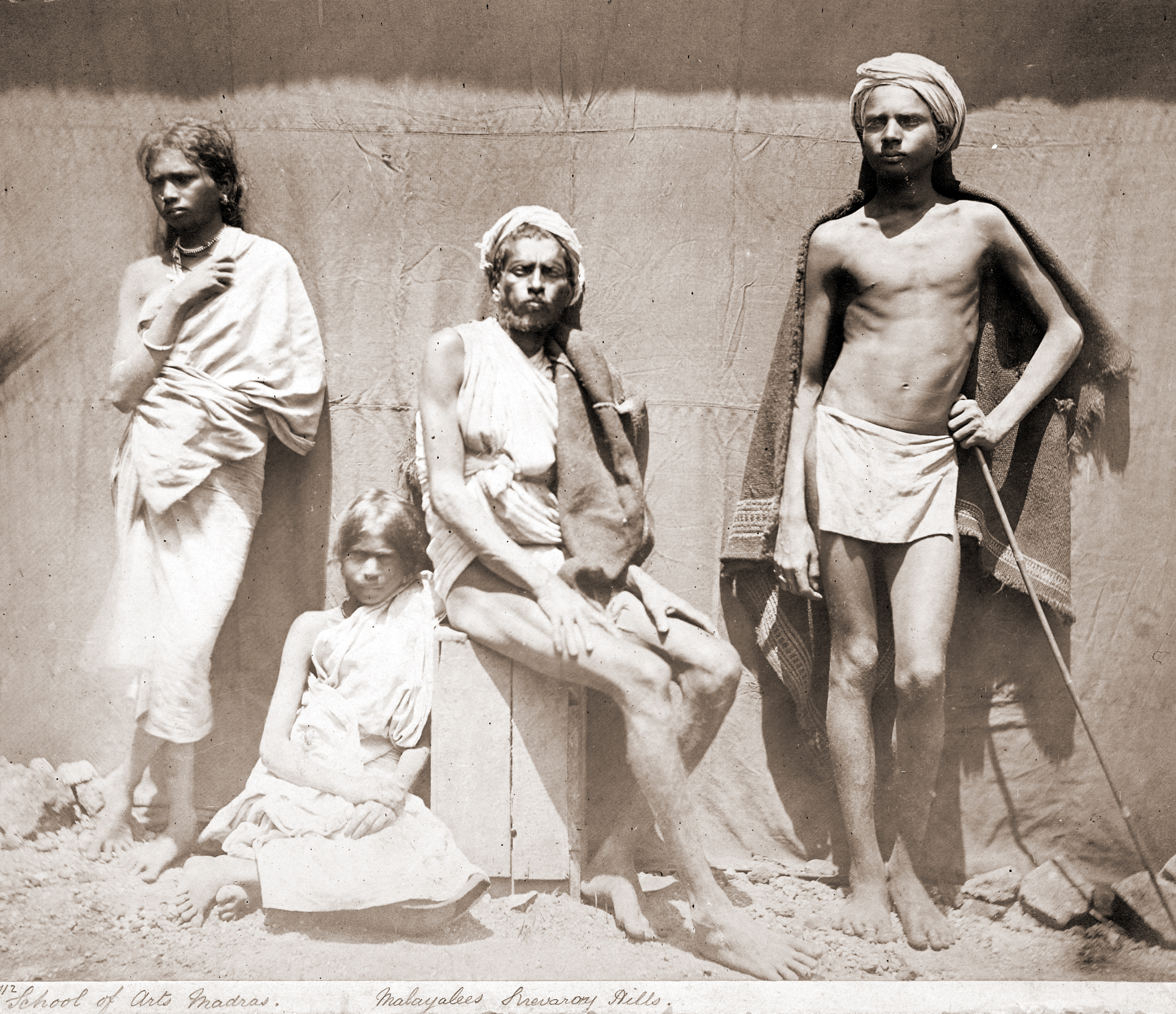 Oct 26, 2010 Photograph of two men and two women of the Malaiyali tribe in the Shevaroy Hills in Tamil Nadu - 1860s Photograph of two men and two women of the Malaiyali tribe in the Shevaroy Hills in Tamil Nadu, southern India, taken by an unidentified photographer in the 1860s, from the Archaeological Survey of India Collections. The Malaiyalis, or Hill-dwellers, were a homogenous community whose subsistence and economy depended exclusively on the forests. The figures in this image are posed against the exterior of a tent. This print is one of a series commissioned by the Government of India in the late 19th century in an attempt to gather information about the different racial groups on the sub-continent. Material was submitted by professional and amateur photographers working in studios and in the field; this photograph was attributed to the Madras School of Industrial Arts, an important training centre for photographers in the area, established in 1850.